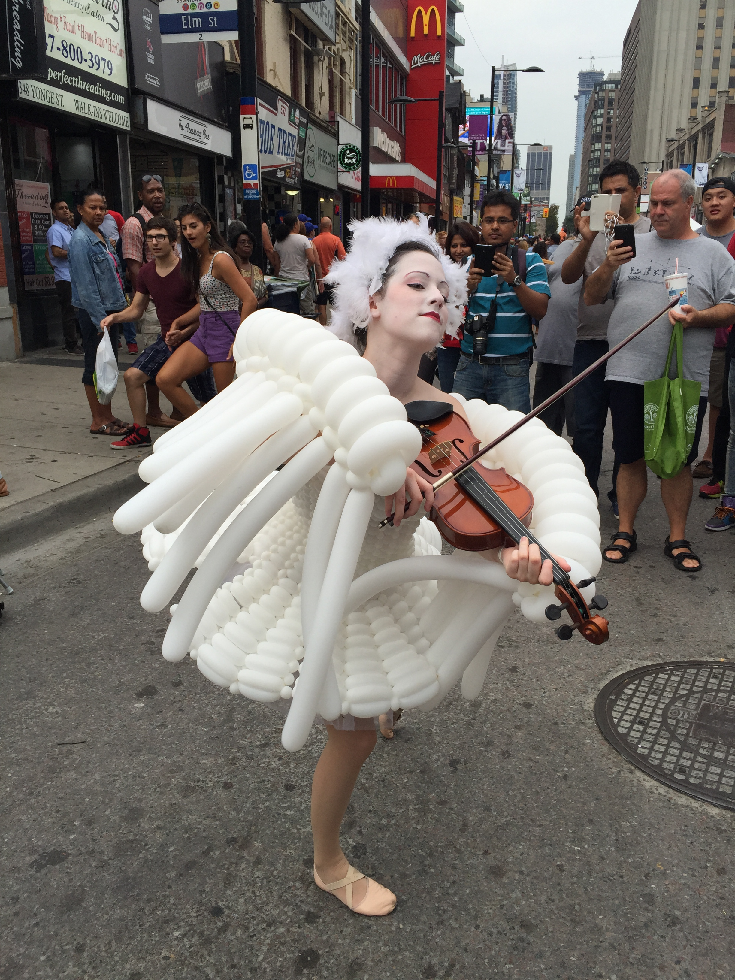 Buskerfest act The Silent Violinist, from The Twisted Ones balloon entertainment company.